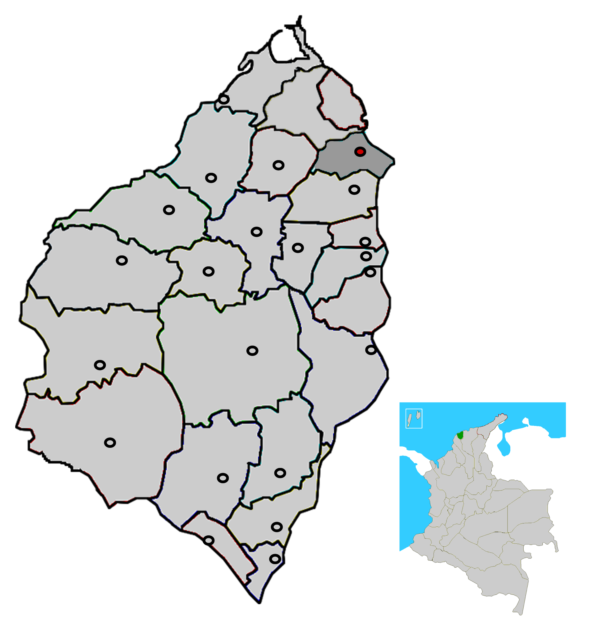 Image depicting map of soledad in the Atlantico Department, Colombia